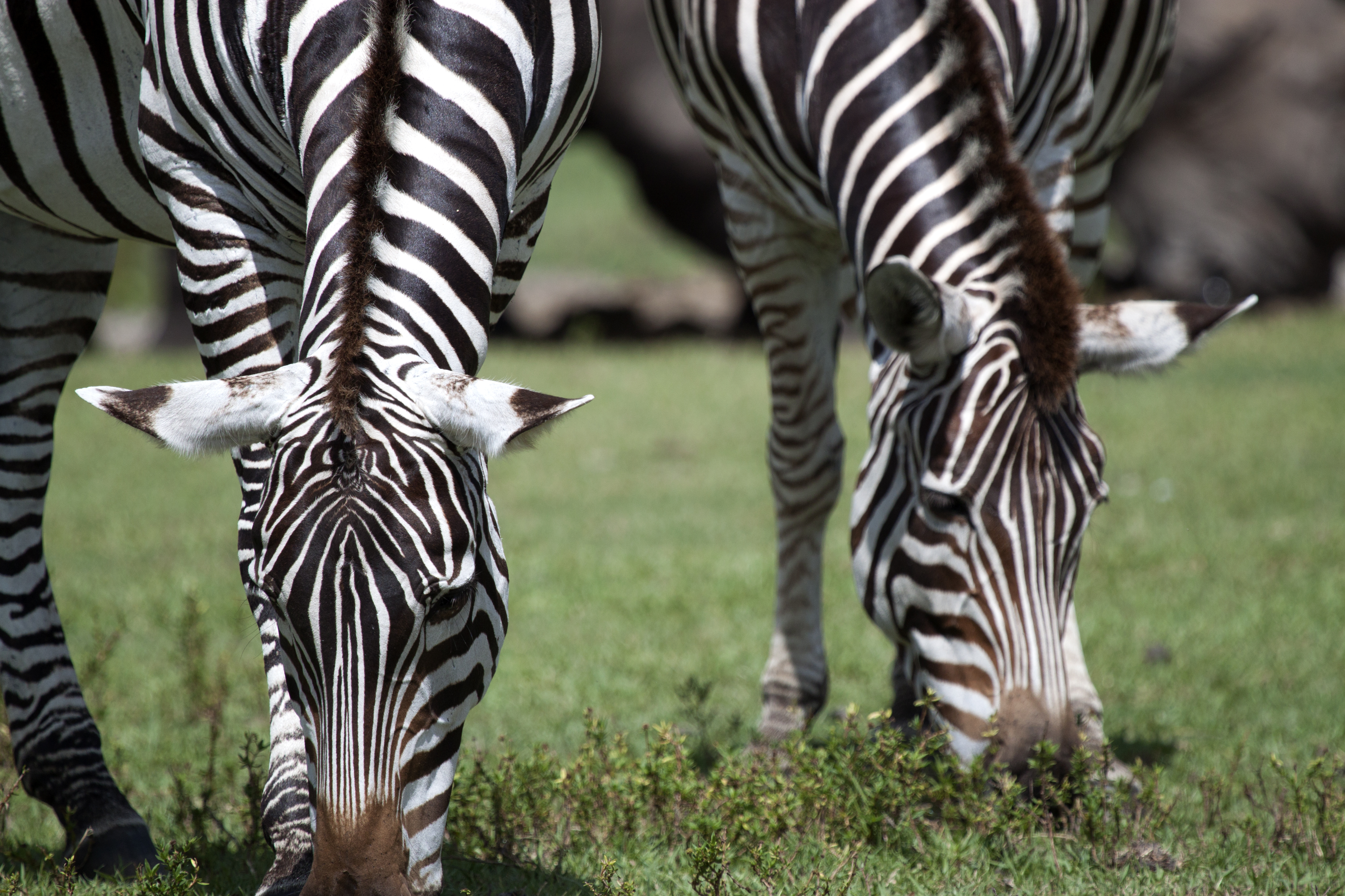 Image shows the heard, neck and fore legs of a zebra as it stands, grazing in the hot Florida sun. The image is framed vertically and shows parts of a second zebra in the background. The image was taken at the Lion Country Safari in Loxahatchee, in Palm Beach County, Florida, USA.